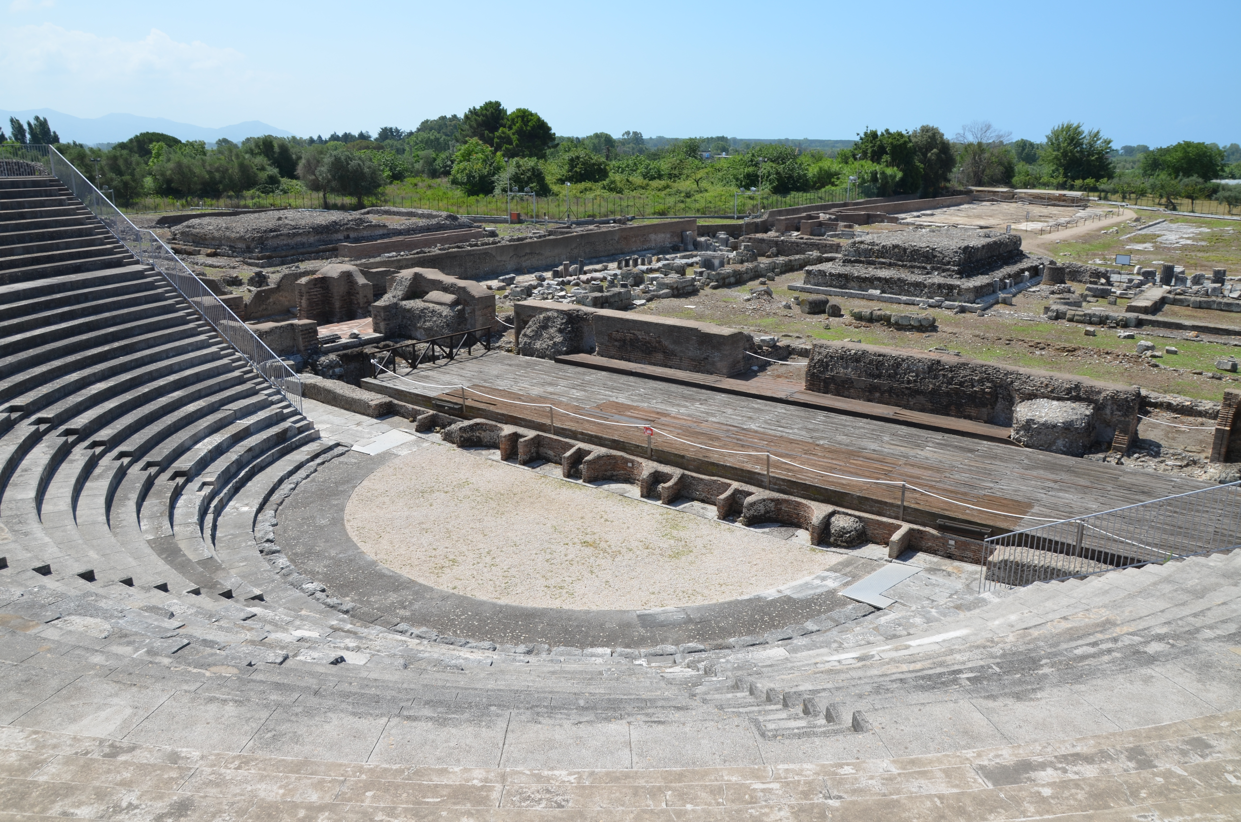 The Roman theatre, view on the temples and Republican & Imperial forums, Minturnae, Minturno, Italy